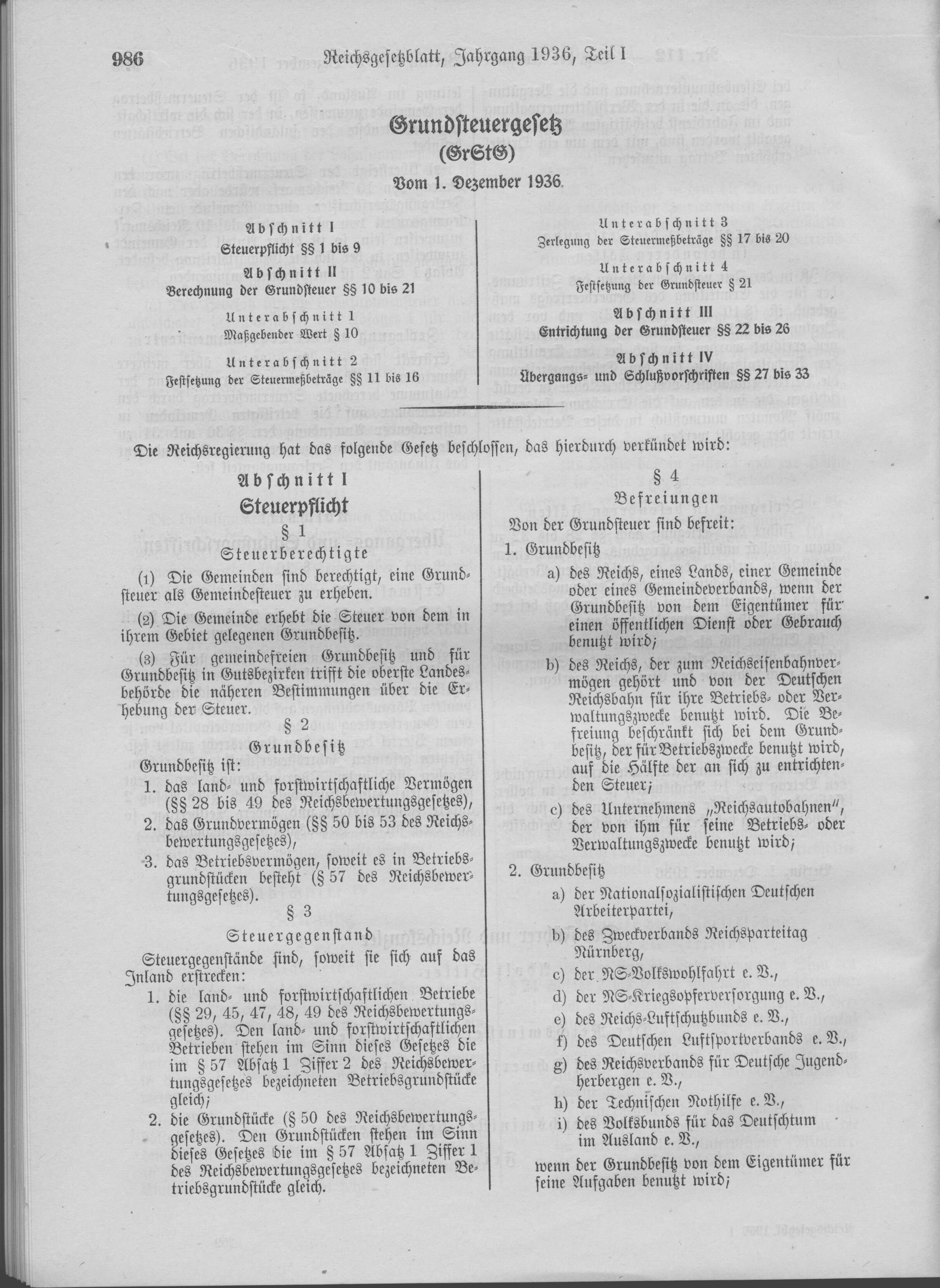 Scan from the Imperial Law Gazette of Germany, 1936, part 1